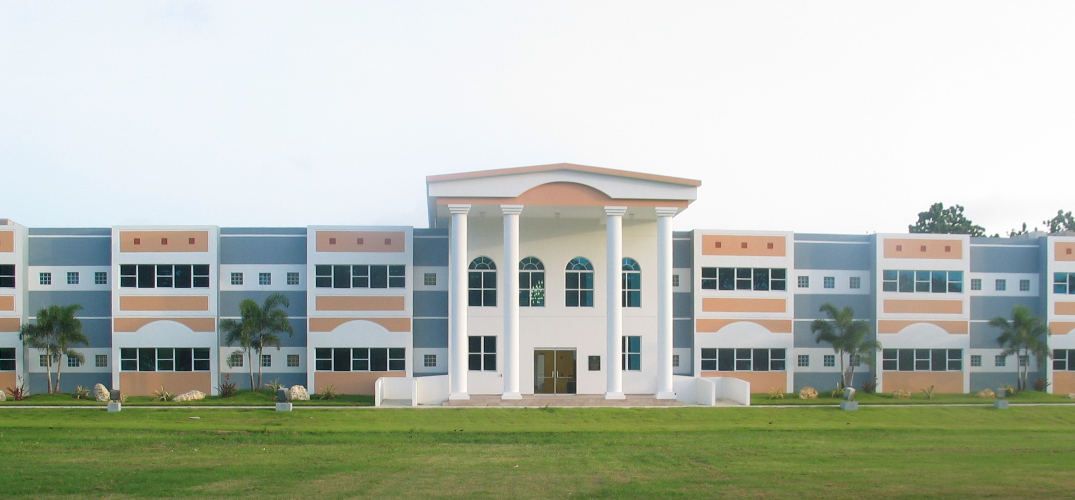 PUCPR Escuela de Derecho, Ave. Las Americas, Bo. Canas Urbano, Ponce, Puerto Rico, mirando al sur (IMG 2736B)